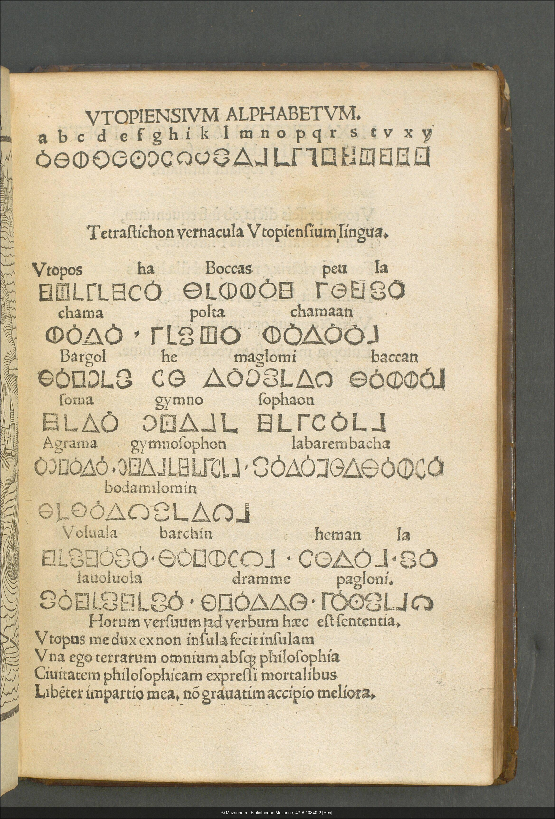 This the Utopian alphabet (probably created by Peter Gilis) as it appears in Thomas More's Utopia (1516, first edition)